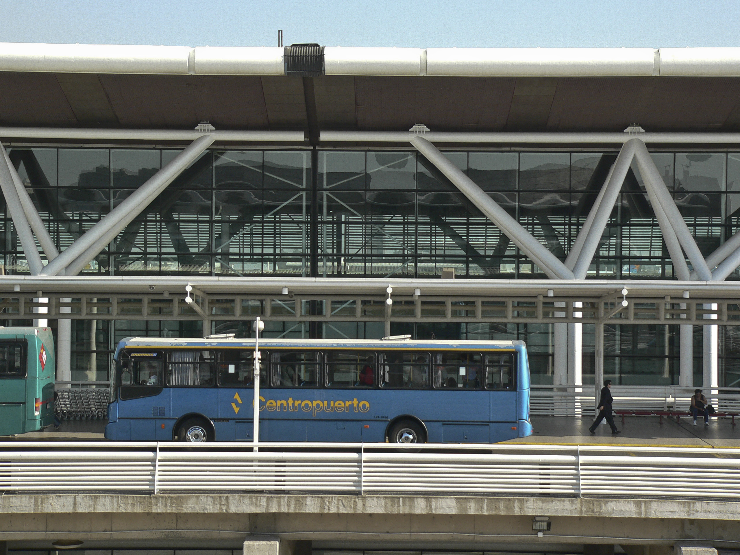 International Airport of Santiago de Chile: Aeropuerto Internacional Comodoro Arturo Merino Benítez